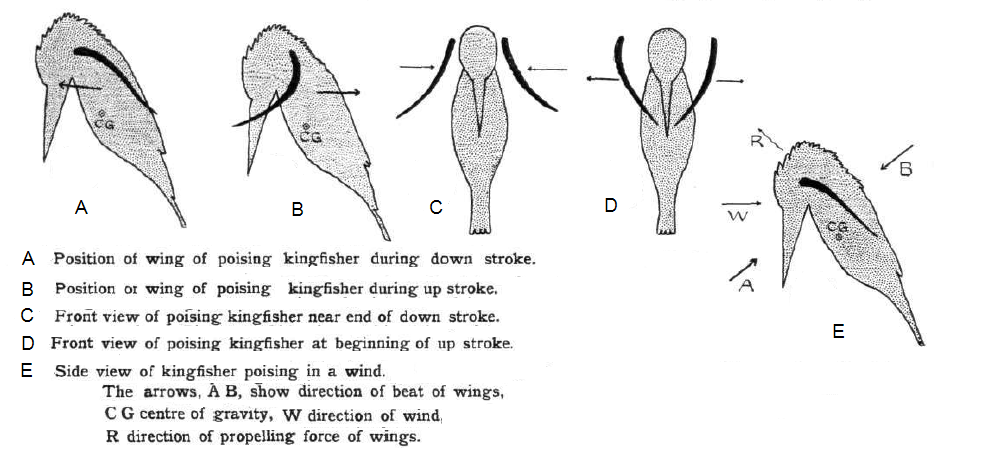 study of wing position of pied kingfisher Ceryle rudis by Ernest Hanbury Hankin